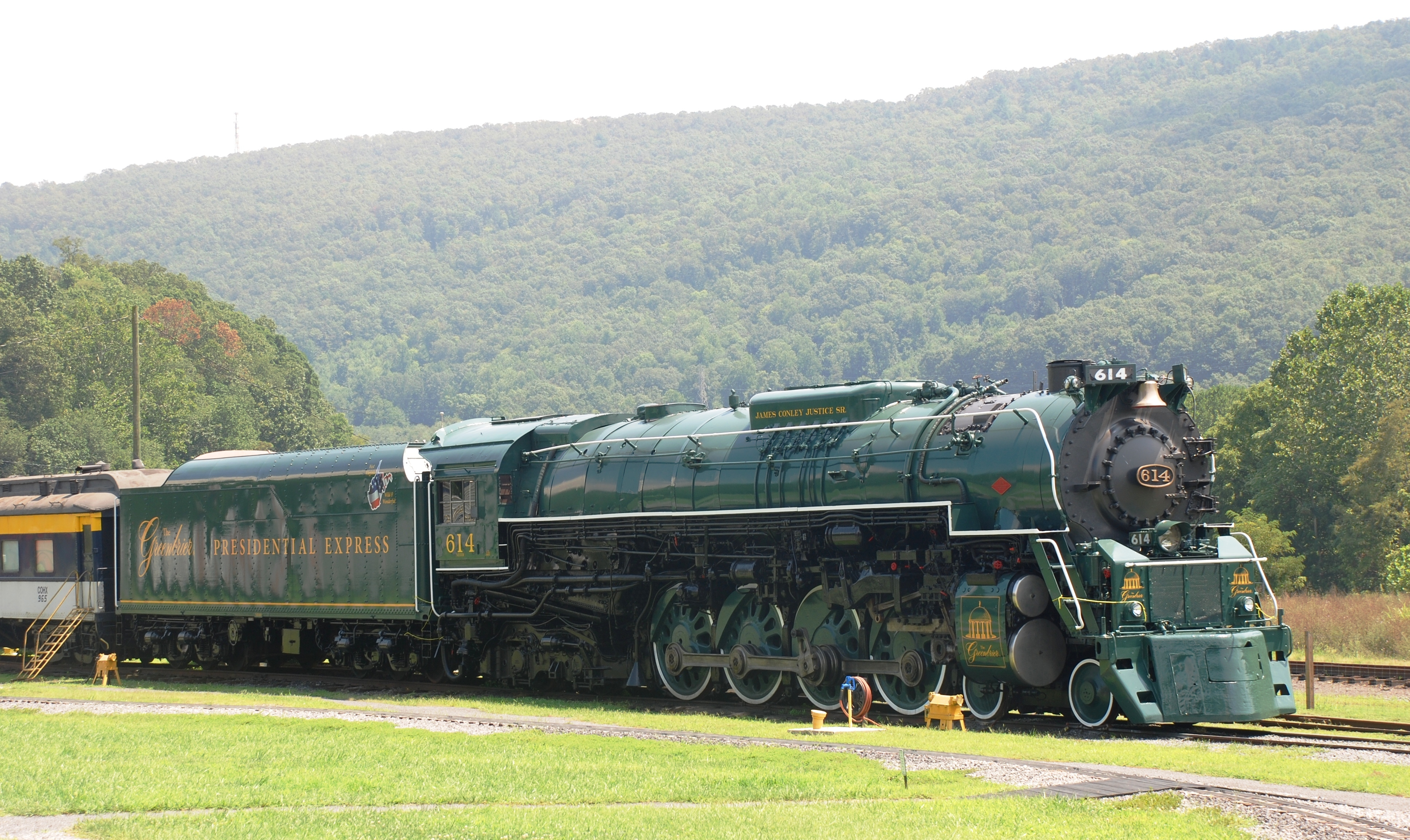 Chesapeake & Ohio 614 4-8-4 steam locomotive at C&O Railway Heritage Center in Clifton Forge, Virginia.